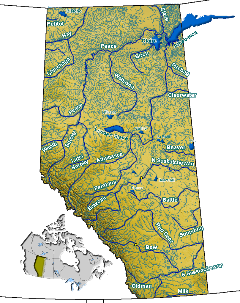 Rivers in Alberta, Canada